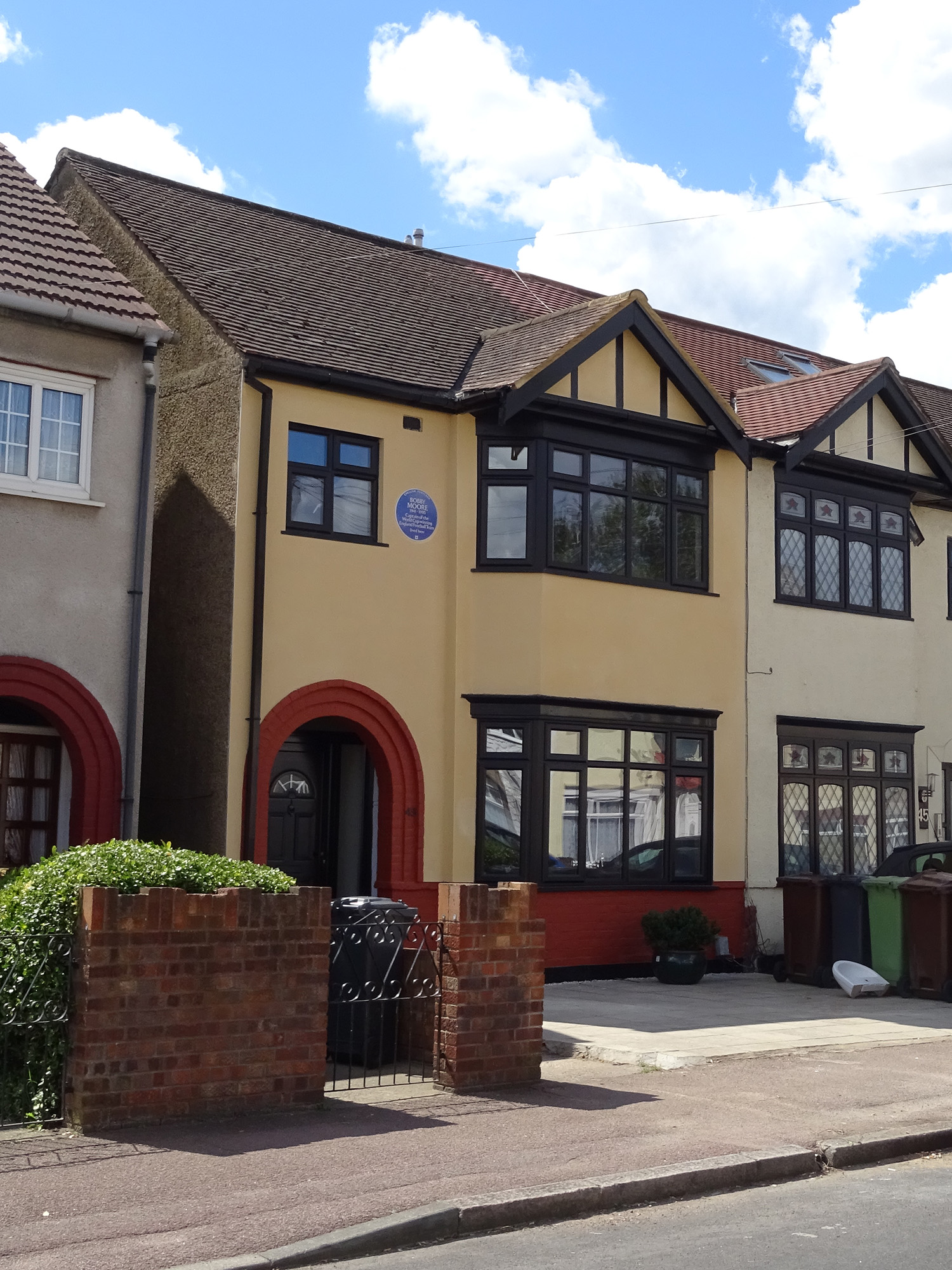 BOBBY MOORE 1941-1993 Captain of the World Cup-winning England Football Team lived here - 43 Waverley Gardens, Barking, London IG11 0BH, London Borough of Barking and Dagenham